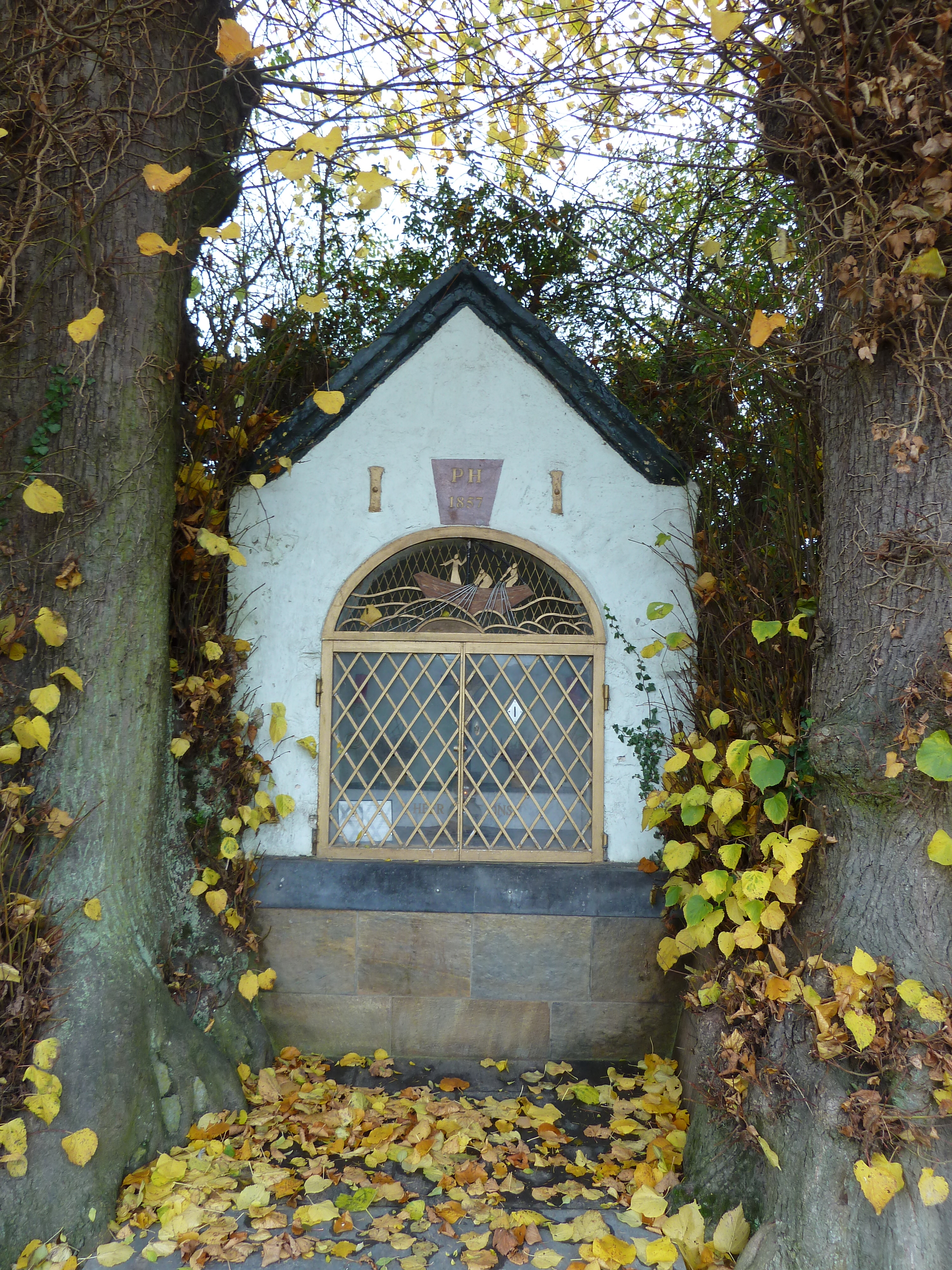 Chapel at crossing Groenstraat-Genzonweg, Ulestraten, Limburg, the Netherlands